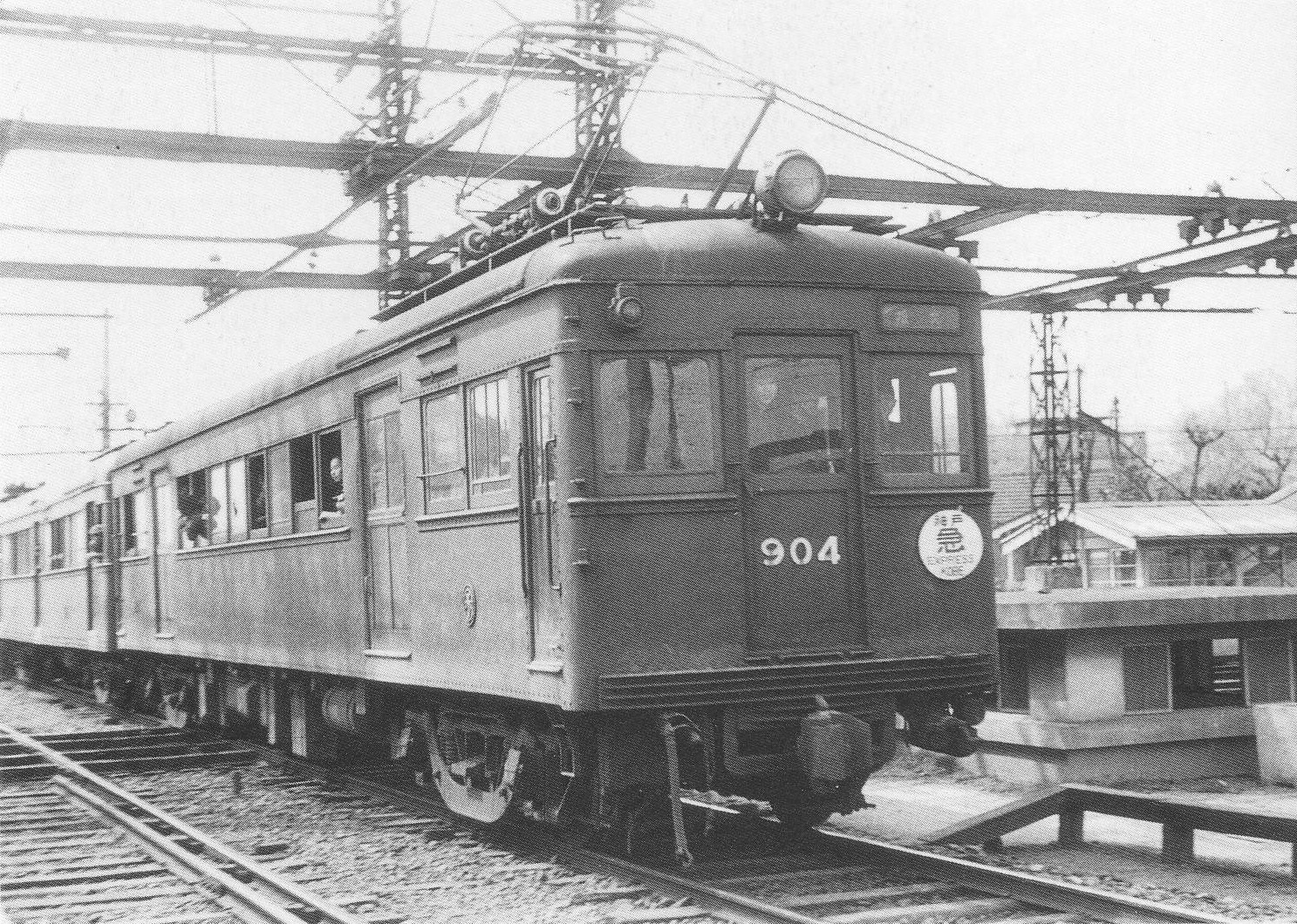 Hankyu 904.